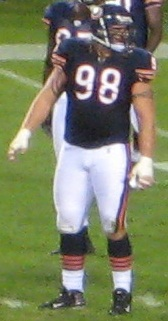 Philadelphia Eagles at Chicago Bears game on September 28, 2008 in Soldier Field